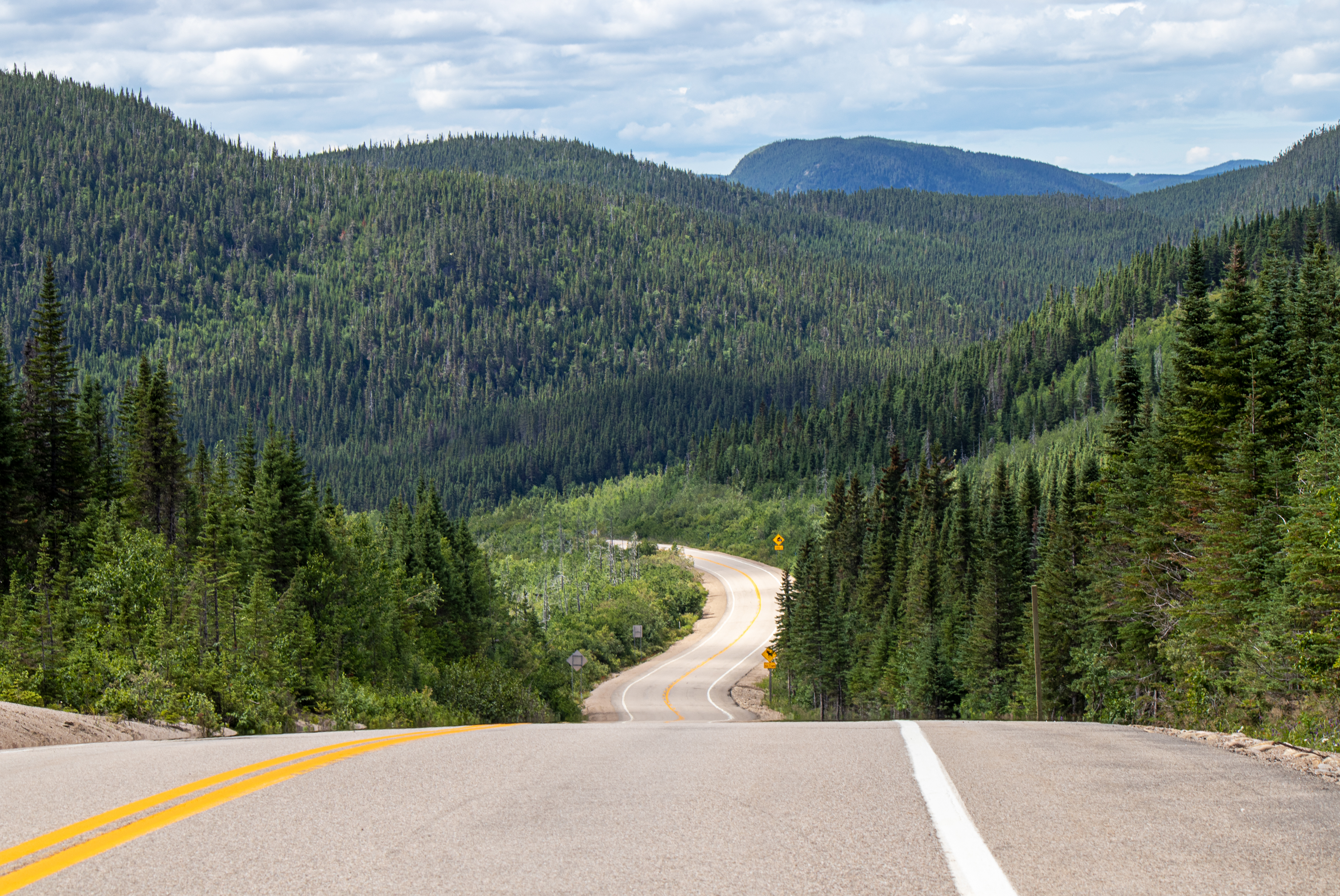 At the top of a 896-metre peak on Route 138 in Québec, delimiting the boundary of the ZEC des Martres (controlled harvesting zone).